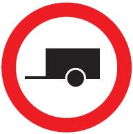 Diagram of road signs of Luxembourg